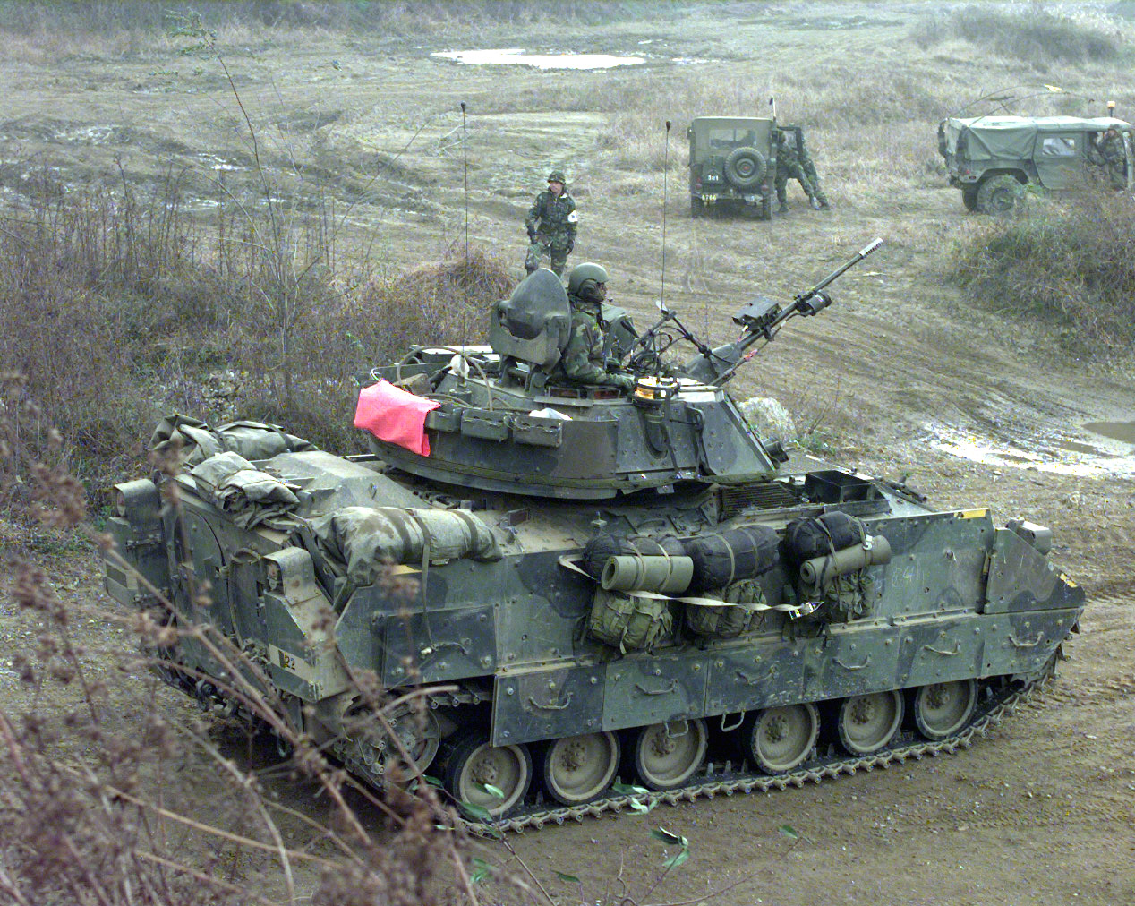 At the battle area in Twin Bridges a M2A1 (Bradley Fighting Vehicles) is hit by MILES (Multiple Integrated Lazer Engagement System) after entering the training field at Twin Bridges in the Republic of Korea Nov. 2, 1998. The M2A1 comes from the Task Force 1st Battalion 23rd Infantry Division out of Ft. Lewis, Wash. TF 123 is conducting an assault on two Infantry companies from a Republic of Korea armored brigade in participation of Foal Eagle '98. A combined exercise involving the Republic of Korea Army and the United States Armed Forces. Any known purpose of the pink towel?